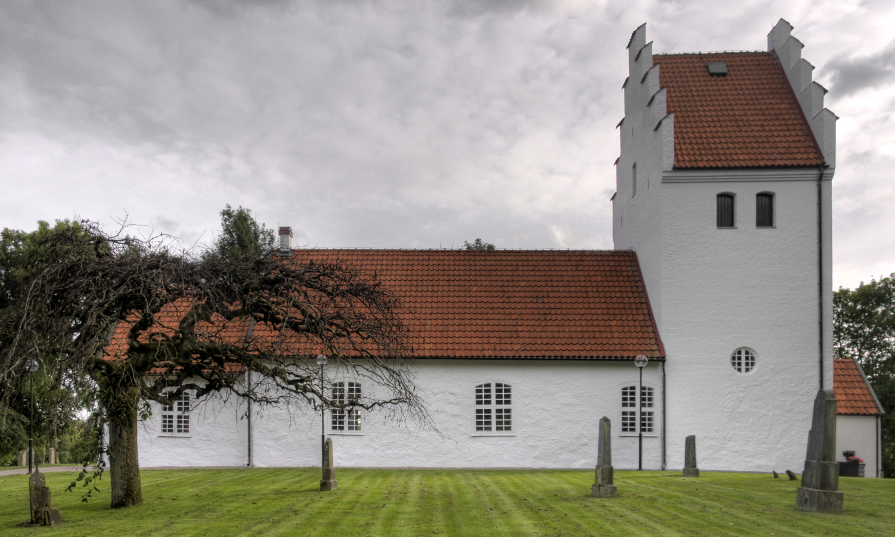 The church in Hörja, Scania.